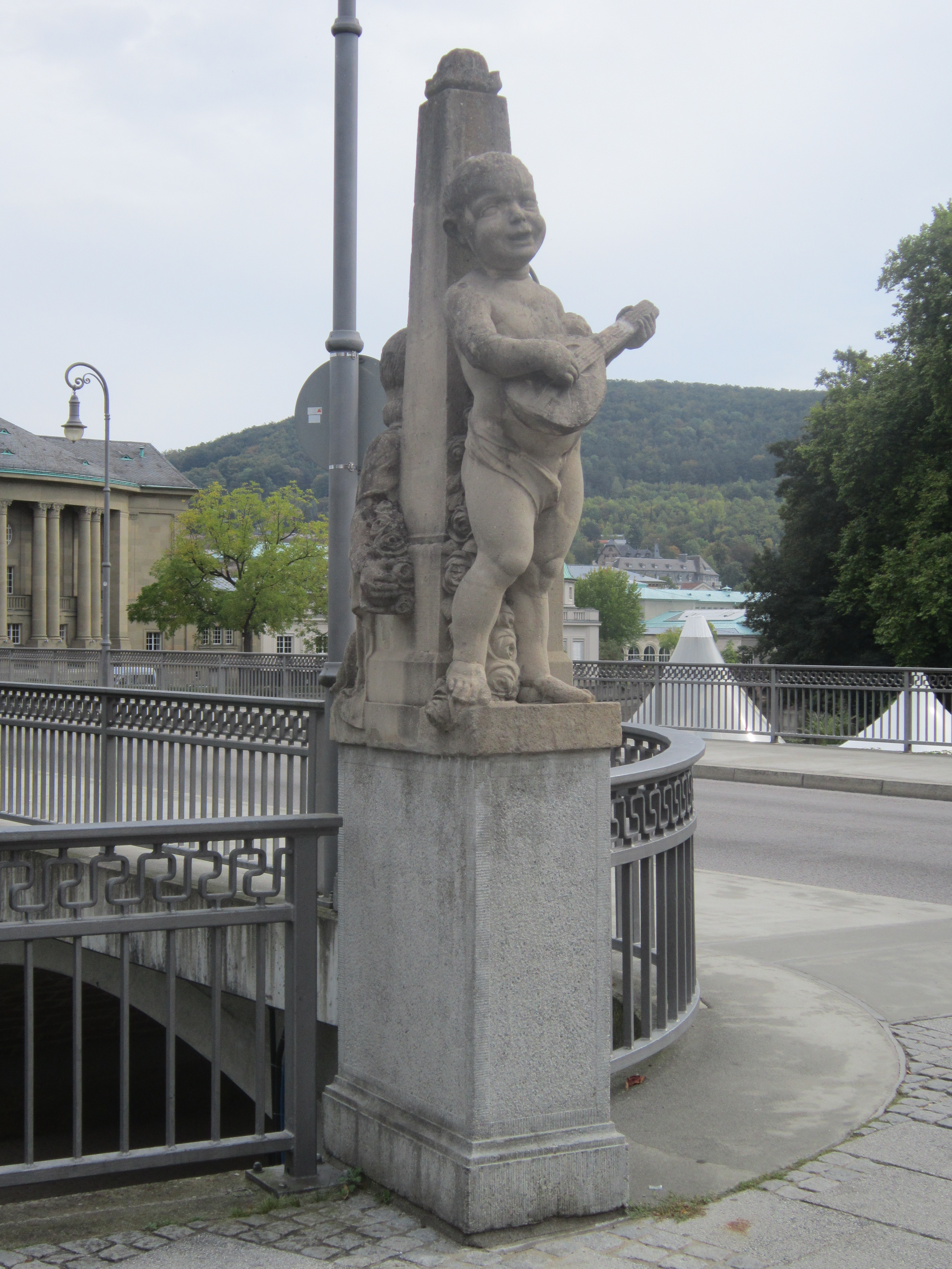 Sculpture at the north side of the "Ludwigsbrücke" in Bad Kissingen, a German spa town of Germany (Lower Franconia, Bavaria).